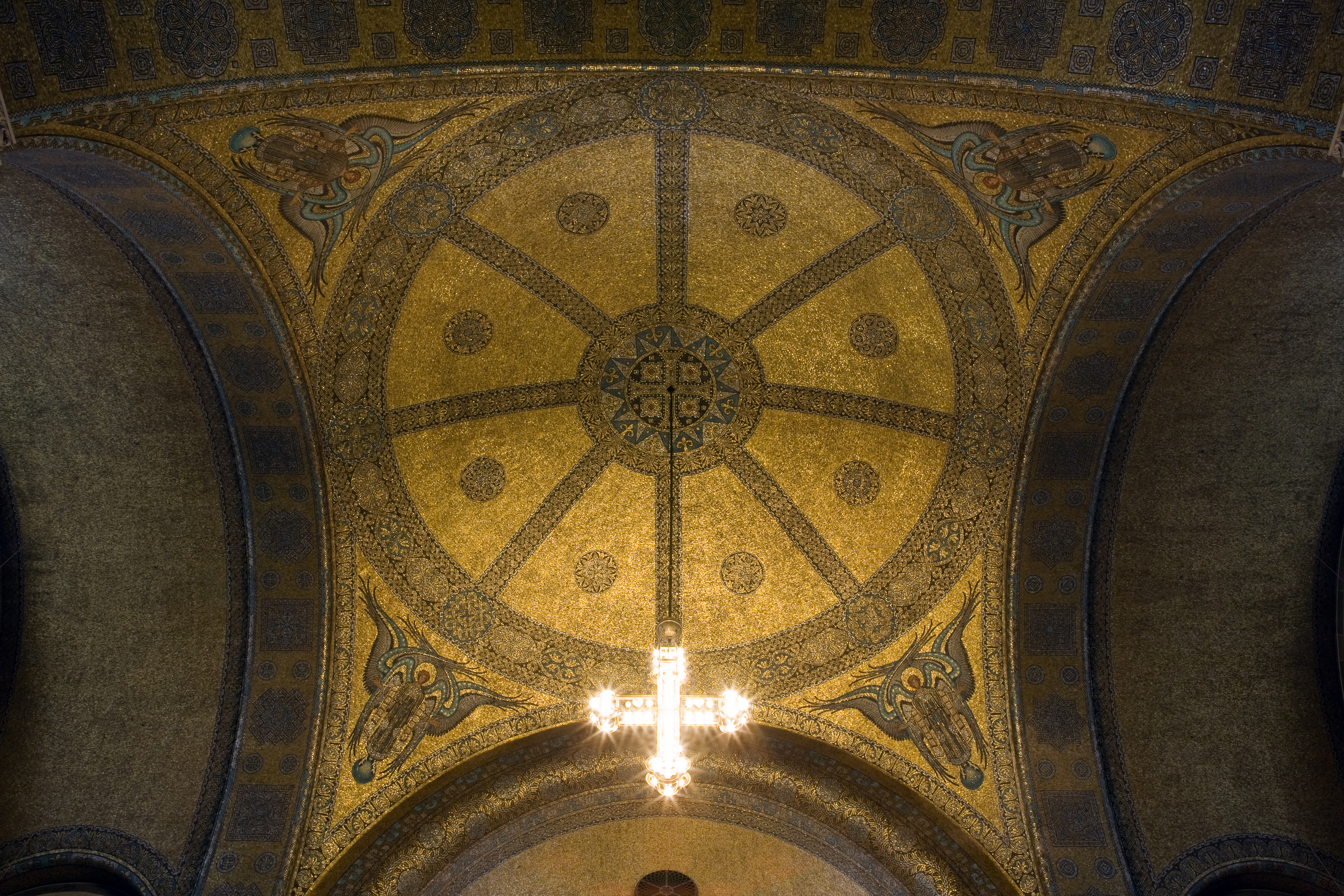 Bad Homburg: Erloeserkirche (Church of the Redeemer), dome mosaic as seen from the central nave